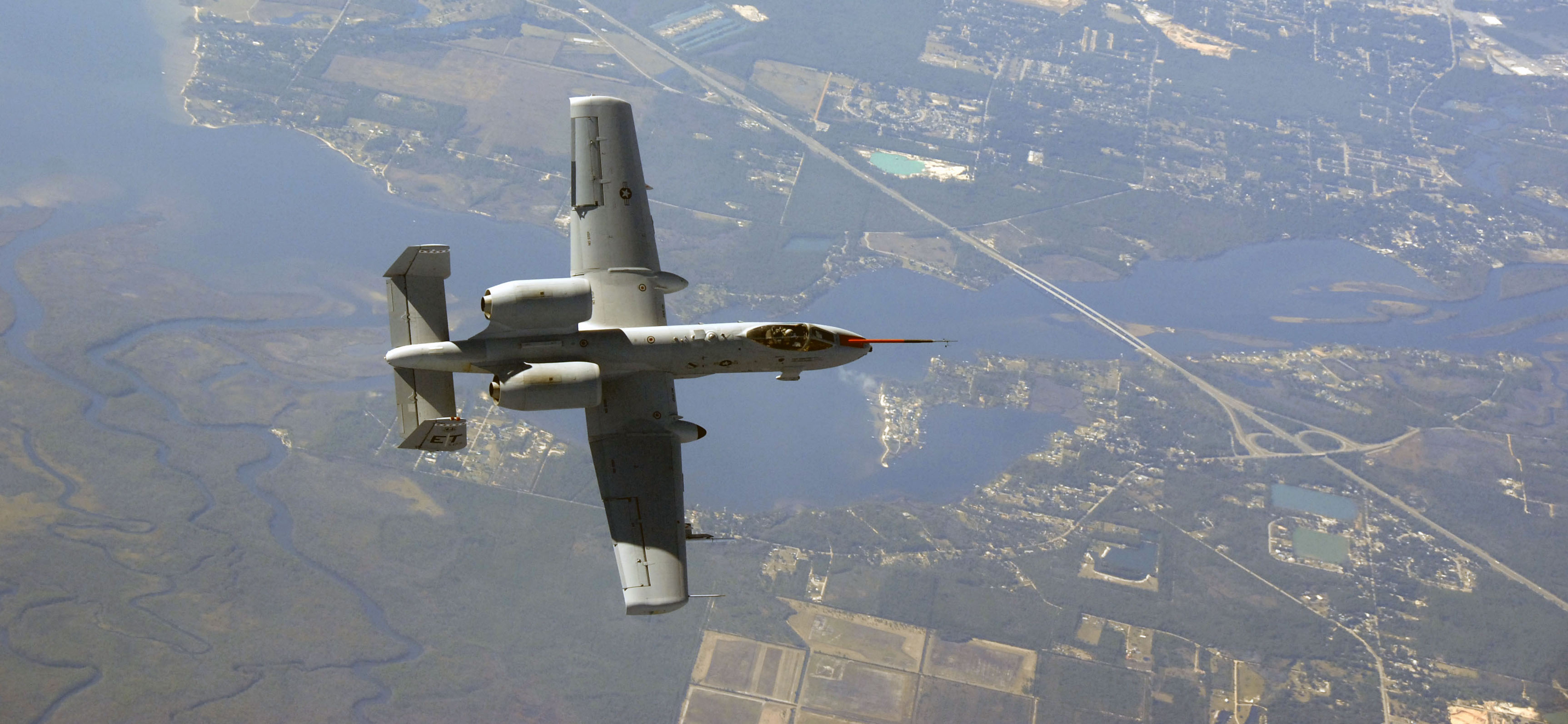 Maj. Matthew Domsalla flies his A-10C Thunderbolt II back to Eglin Air Force Base, Fla., Nov. 5 after successfully completing an historic ordnance delivery test mission. Major Domsalla made the first ever release of a Laser Joint Direct Attack Munition from an A-10, moving this weapon capability for the A-10 closer to fielding for warfighters. Major Domsalla is with the 40th Flight Test Squadron at Eglin AFB. (U.S. Air Force photo/Master Sgt. Joy Josephson)